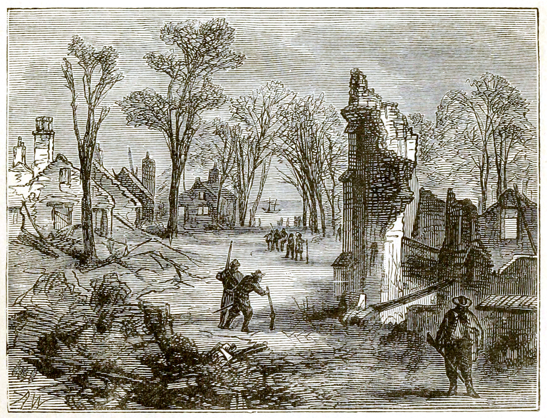 An 1878 depiction of the ruins of Jamestown following its burning during Bacon's Rebellion. From A School History of the United States, from the Discovery of America to the Year 1878 by David B. Scott (1878); available at the Internet Archive